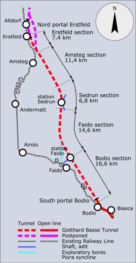 Gothard Base Tunnel map